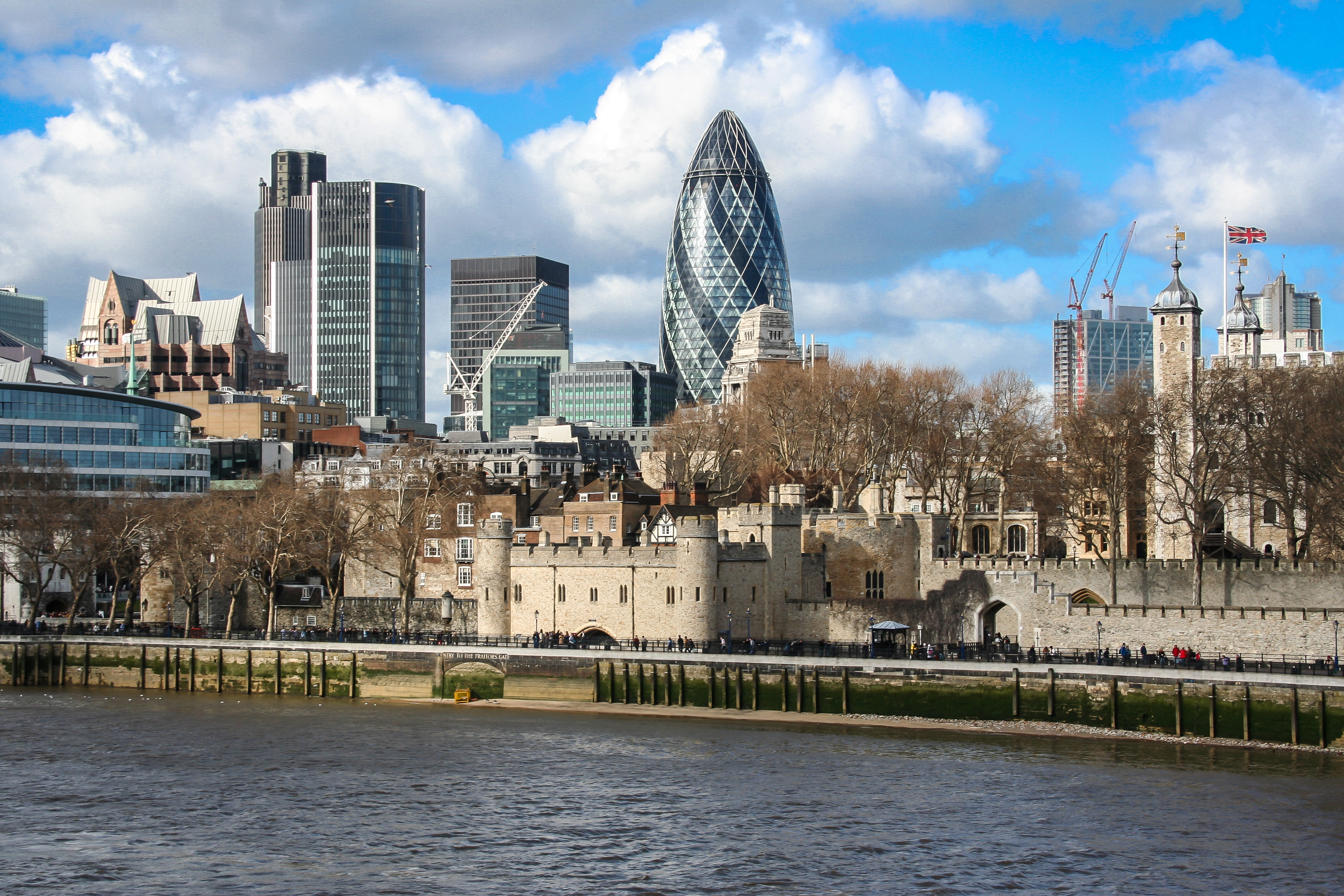 City of London: Tower of London and 30 St Mary Axe view from Tower bridge